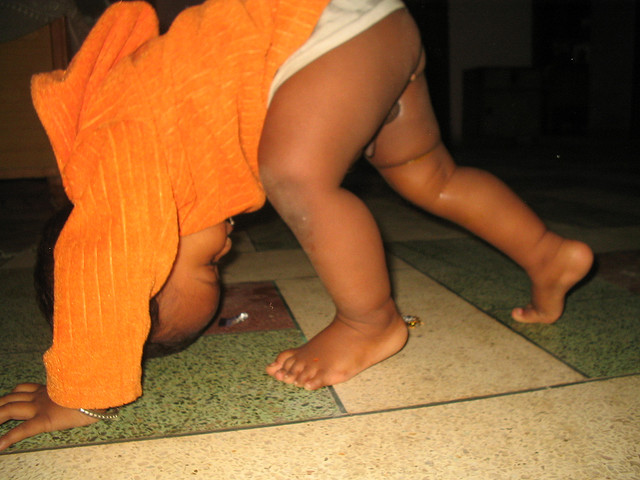 he has picked up this strange habit for some past few weeks...he does this some time, then topples over, then giggles and then again... very funny :)